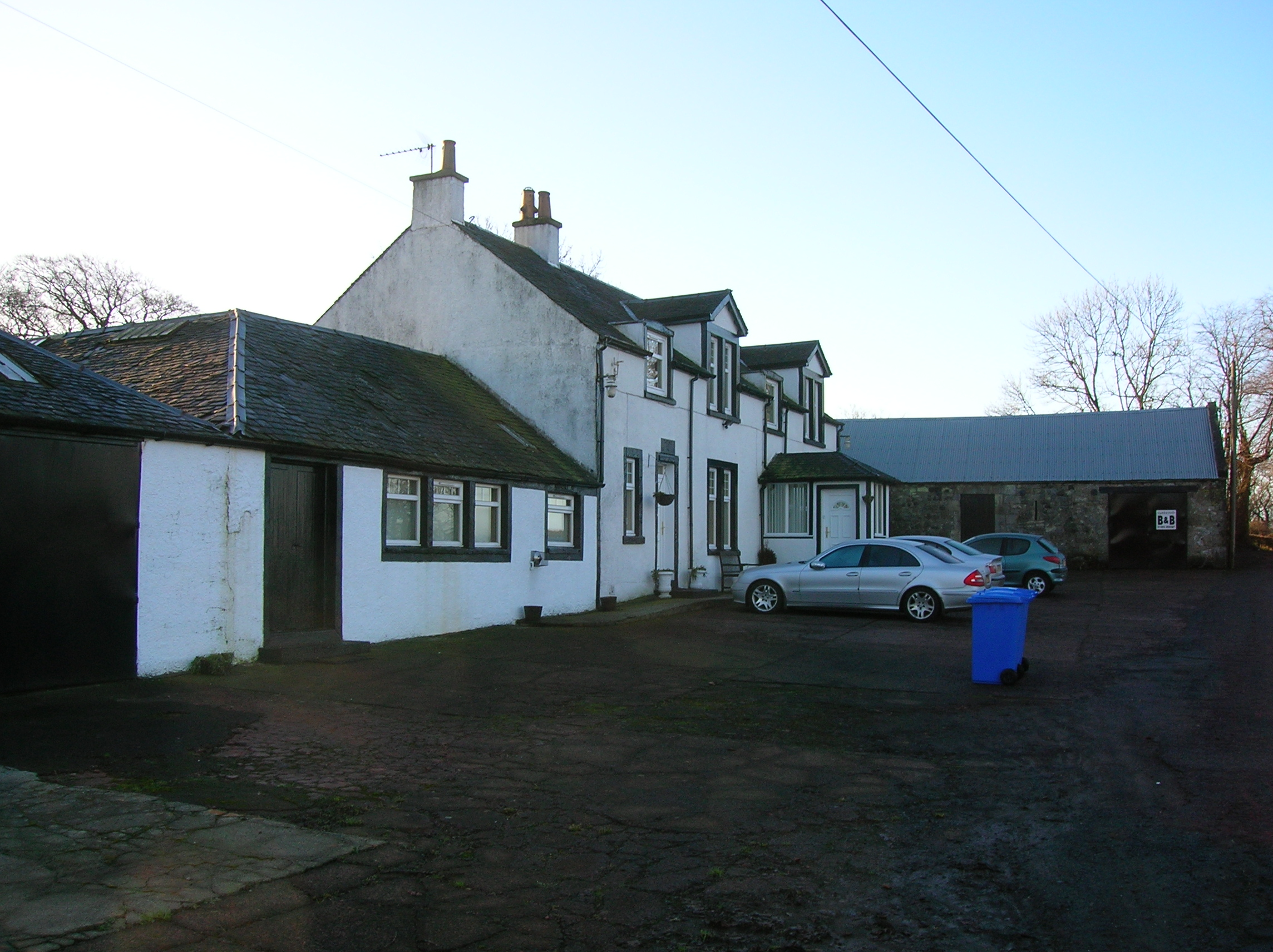 Gatend Farm and byre near Barrmill at the end of the old driveway to Bogston House. North Ayrshire, Scotland.